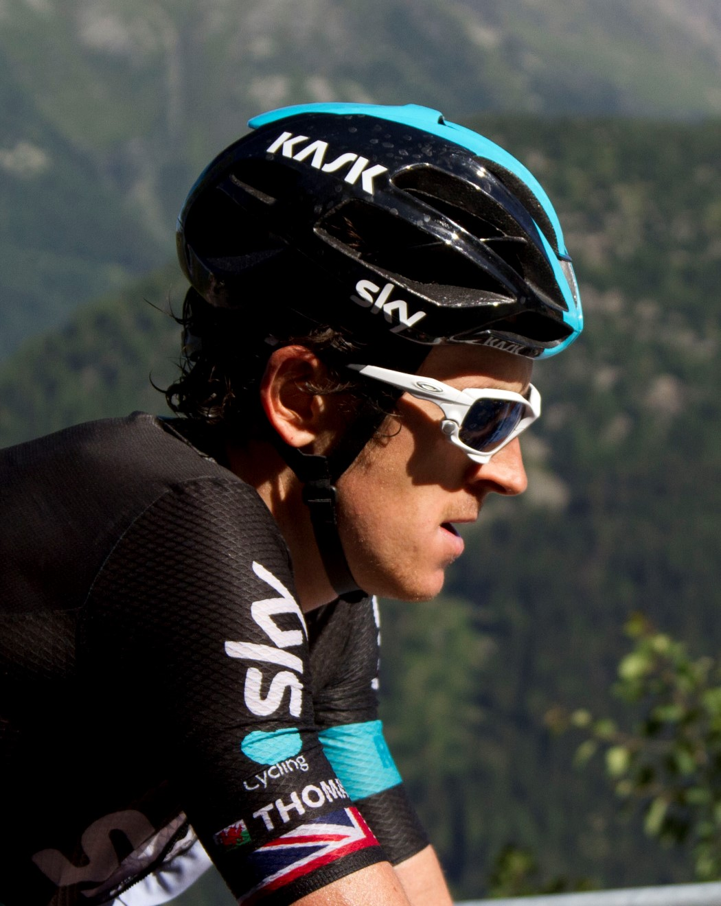 283 thomas